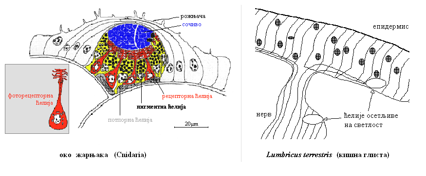 Description: Scheme of the eyes of Cnidaria and Oligochaeta Source: self-made